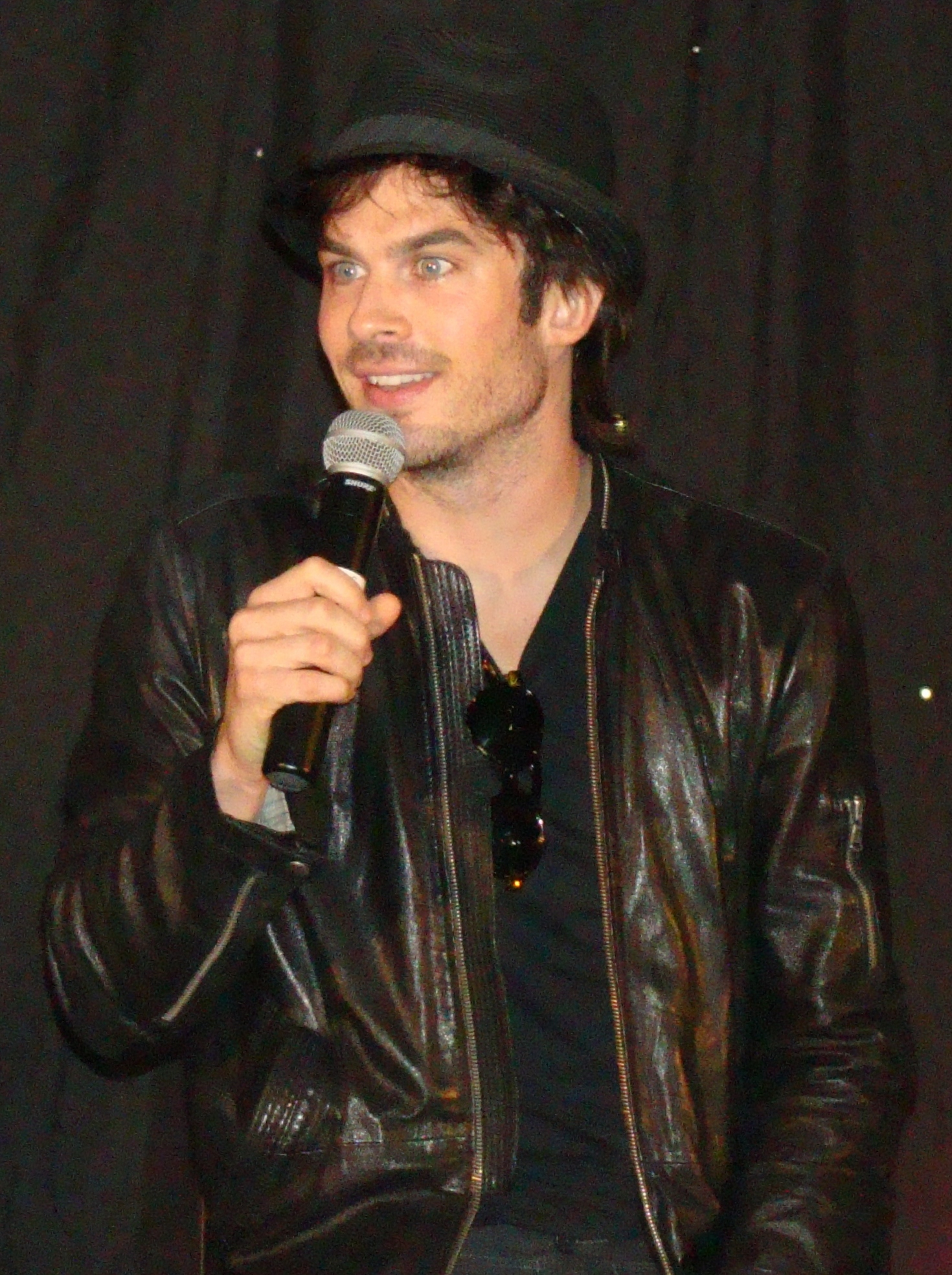 Interview with Ian Somerhalder from The Vampire Diaries in June 2012.